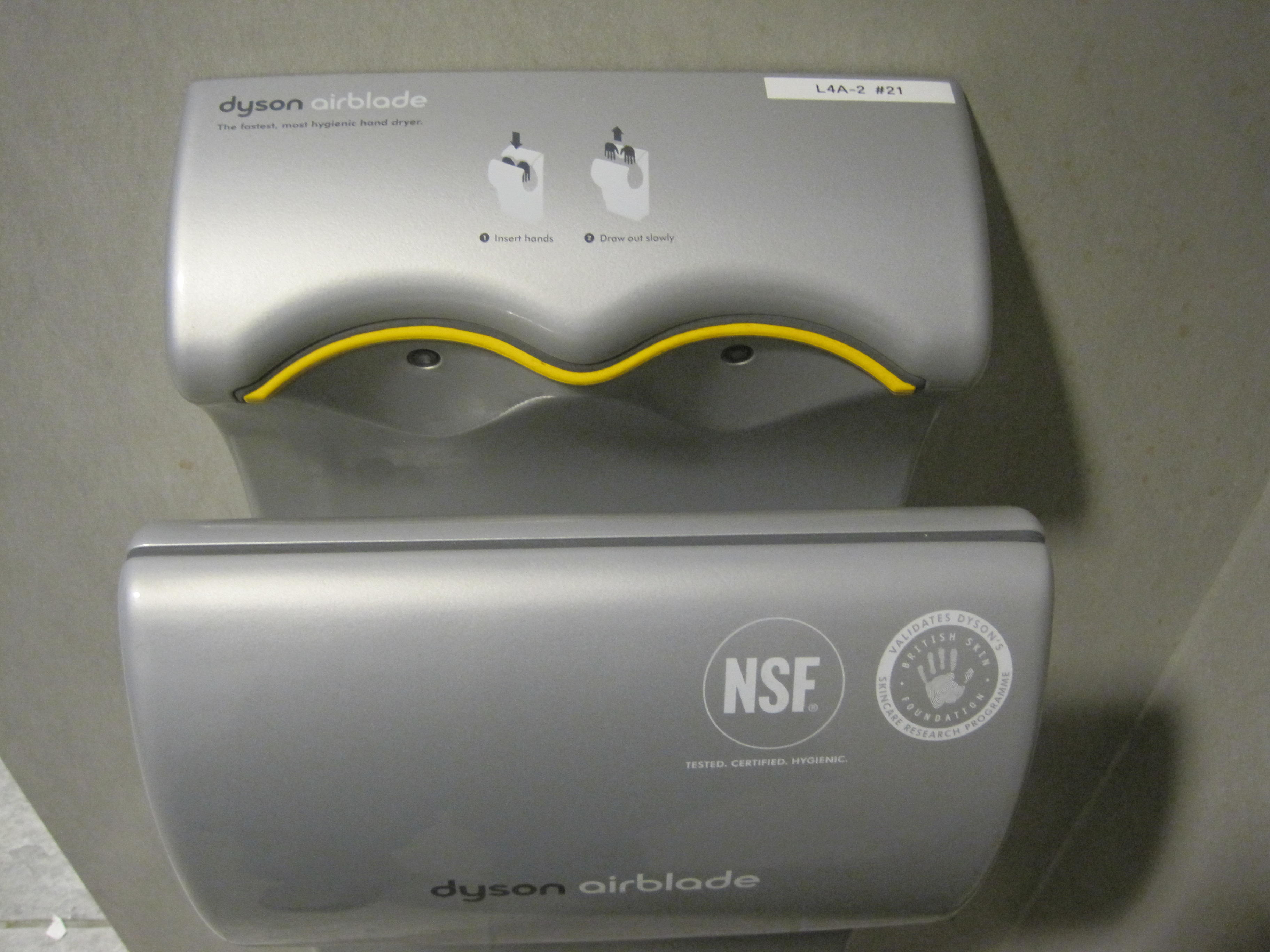 A Dyson Airblade hand dryer in California.